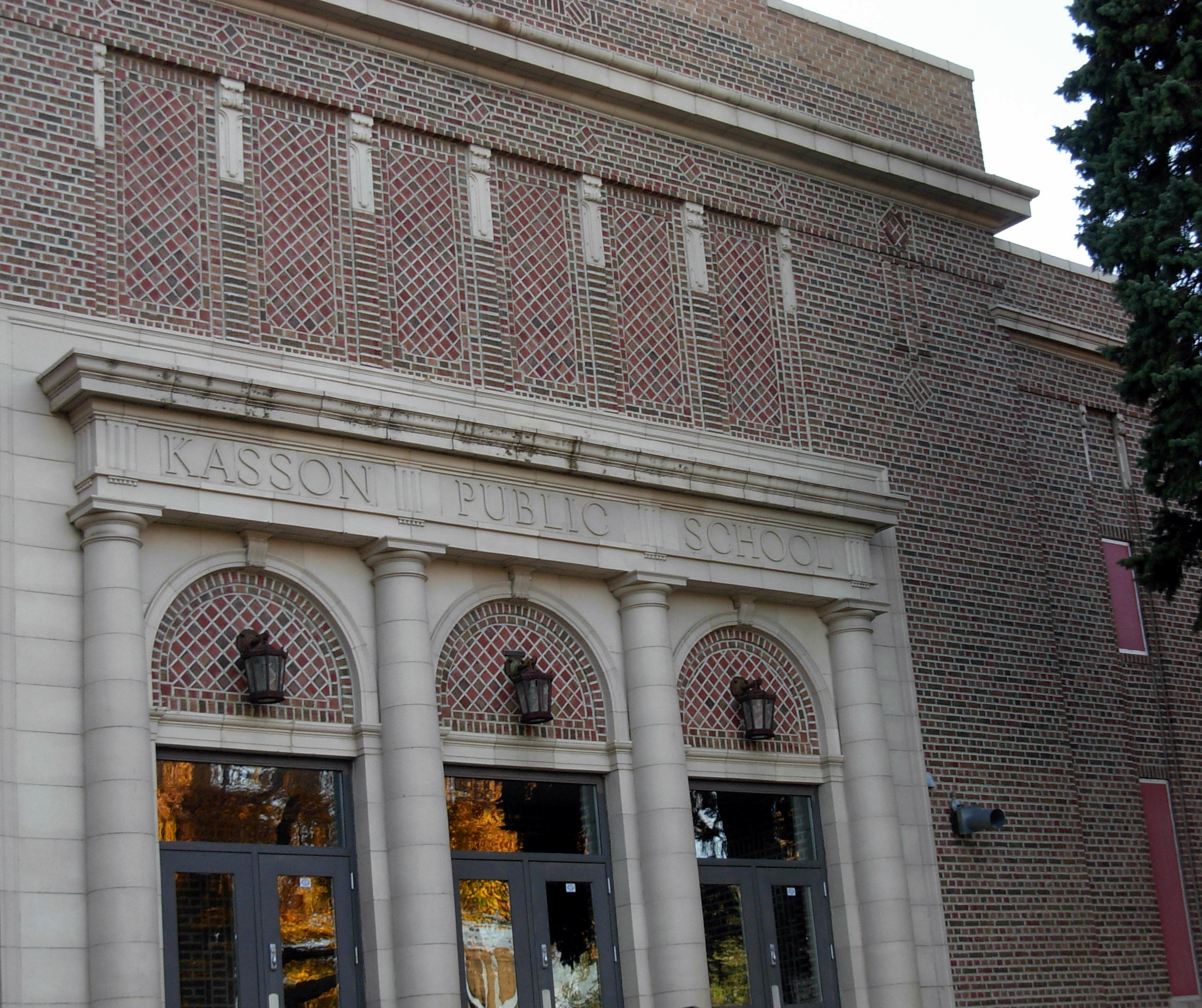 Kasson Public School main entrance in Kasson, Minnesota